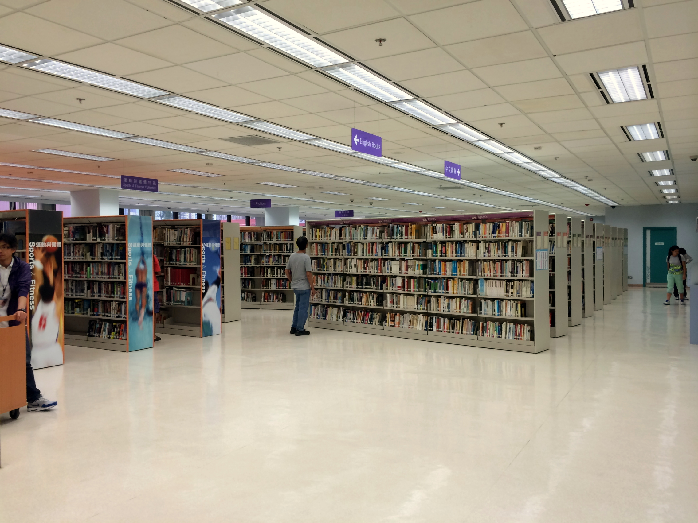 Sha Tin Public Library Interior